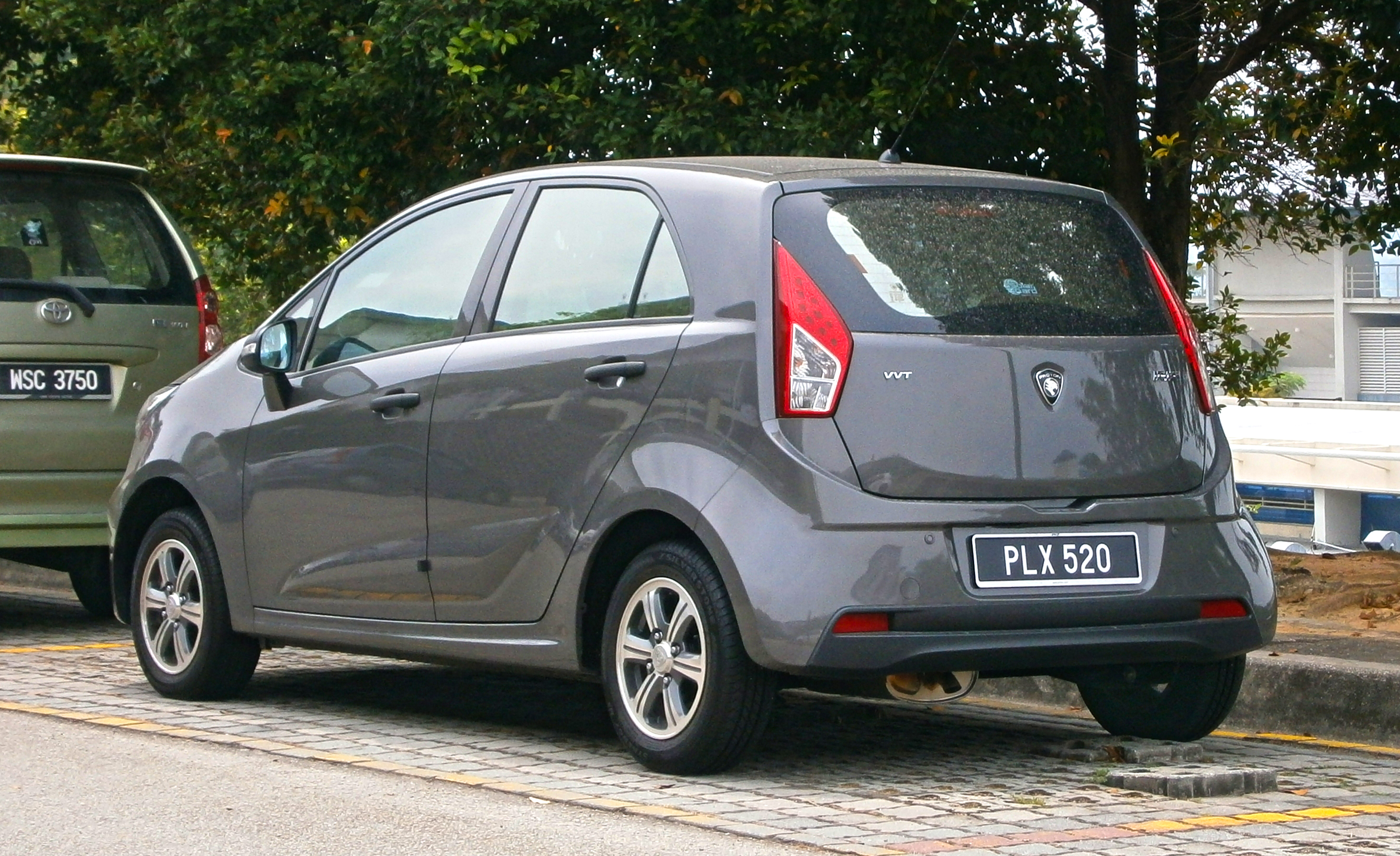 2015 Proton Iriz 1.3 Standard 5-door hatchback